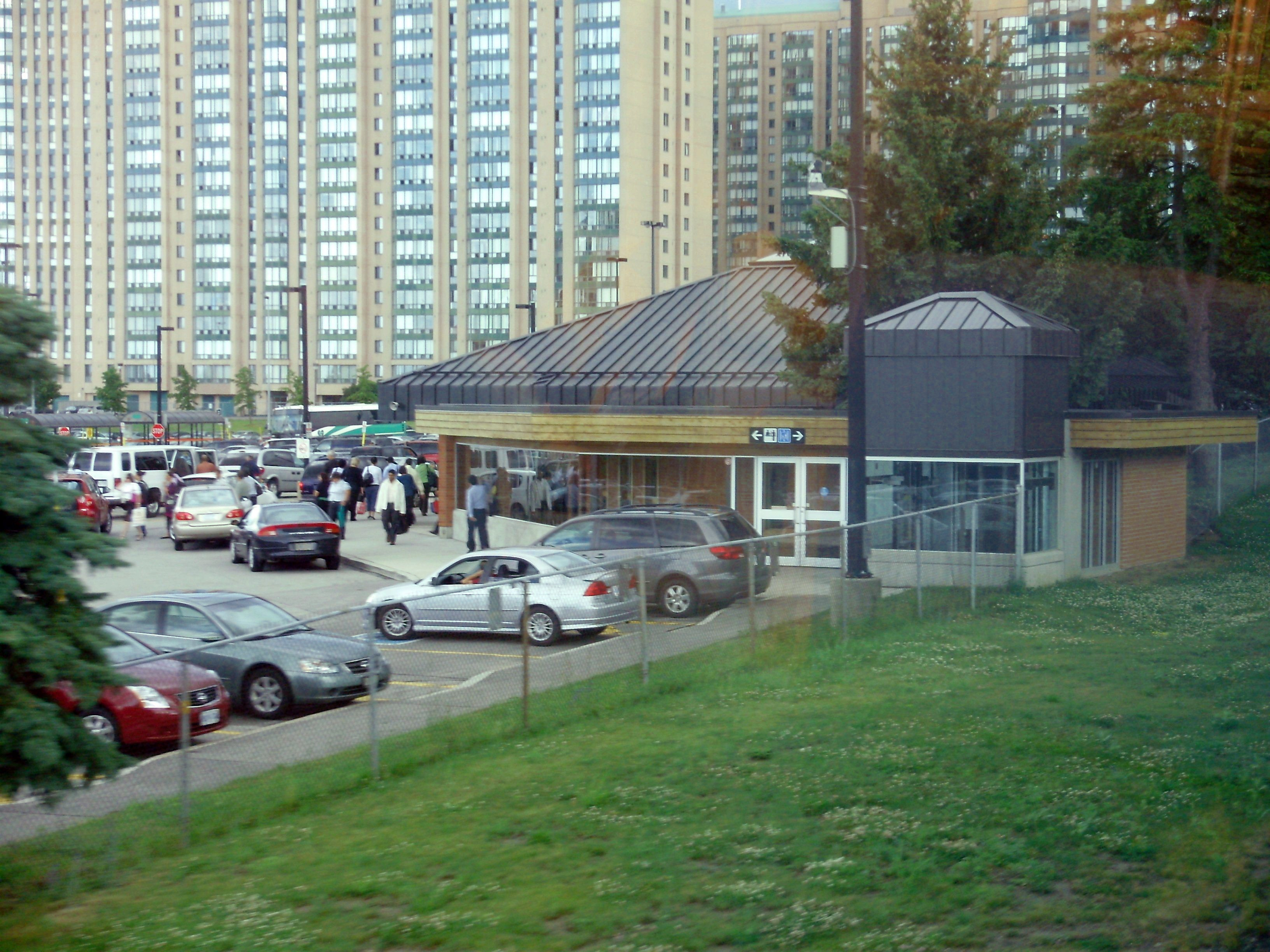 Commuters depart Cooksville GO Station, photographed from the upper level of a GO Transit train, in Mississauga, Ontario, Canada.